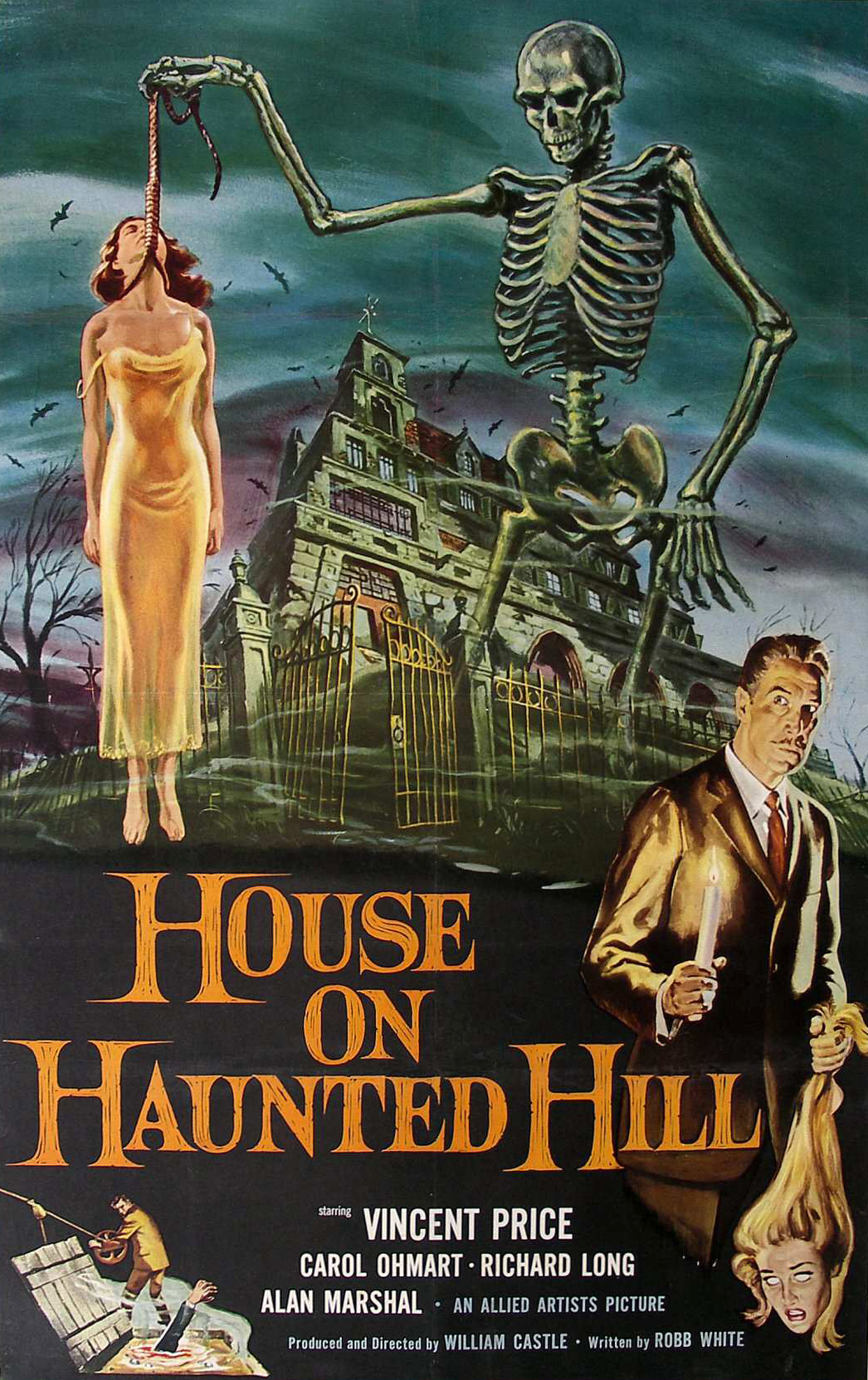 Advertising poster for the film House on Haunted Hill (1958)